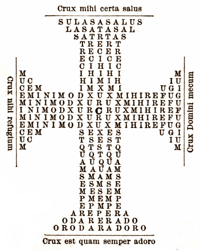 Angels Cross of St Thomas Aquinat